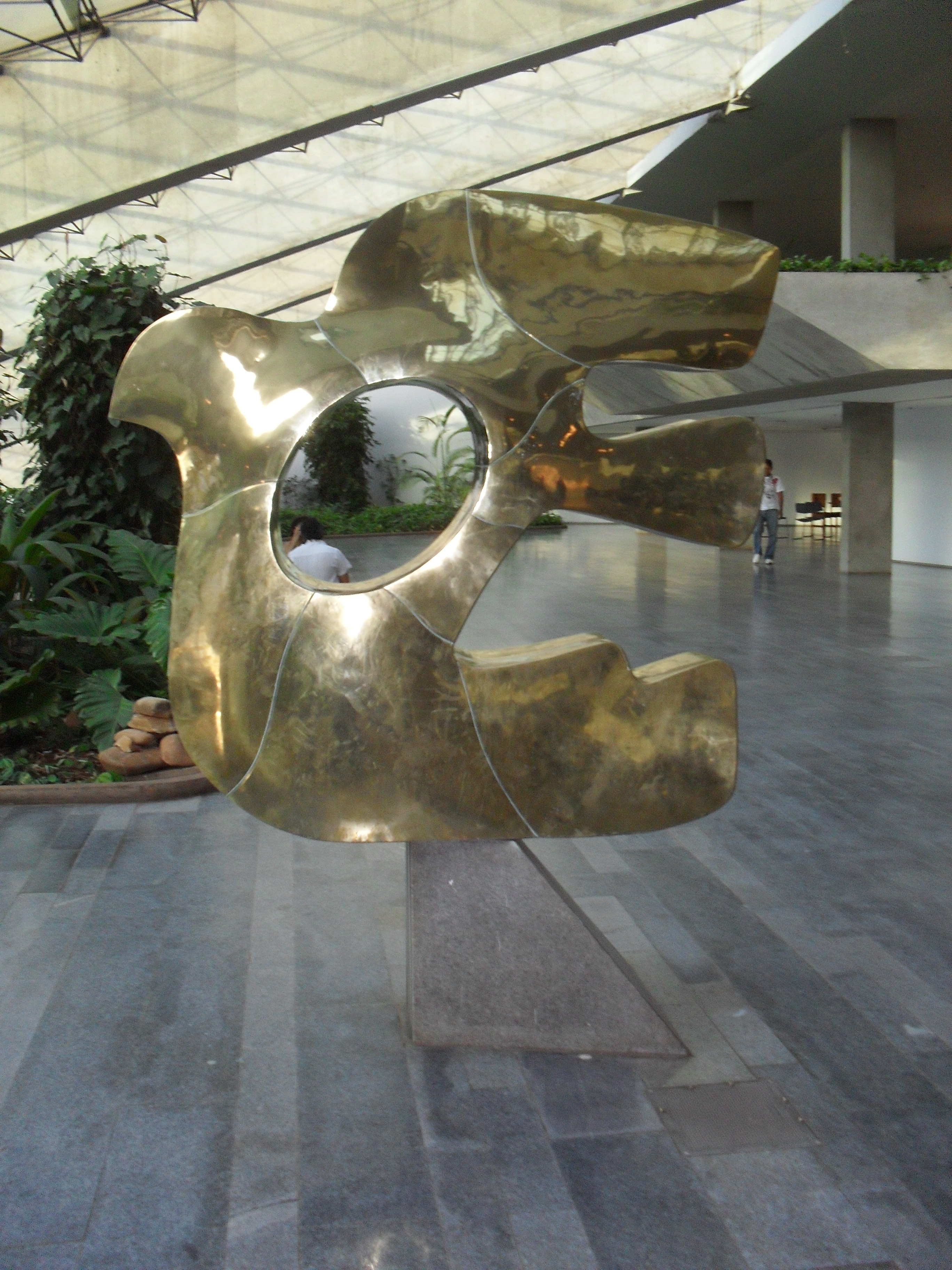 Sculpture signed by Marianne Peretti, polished bronze, 1.80 m by 0,60 m, weight: 804 kg; installed at the antechambler of Villa-Lobos room of the Cláudio Santoro National Theater, Brasília, l